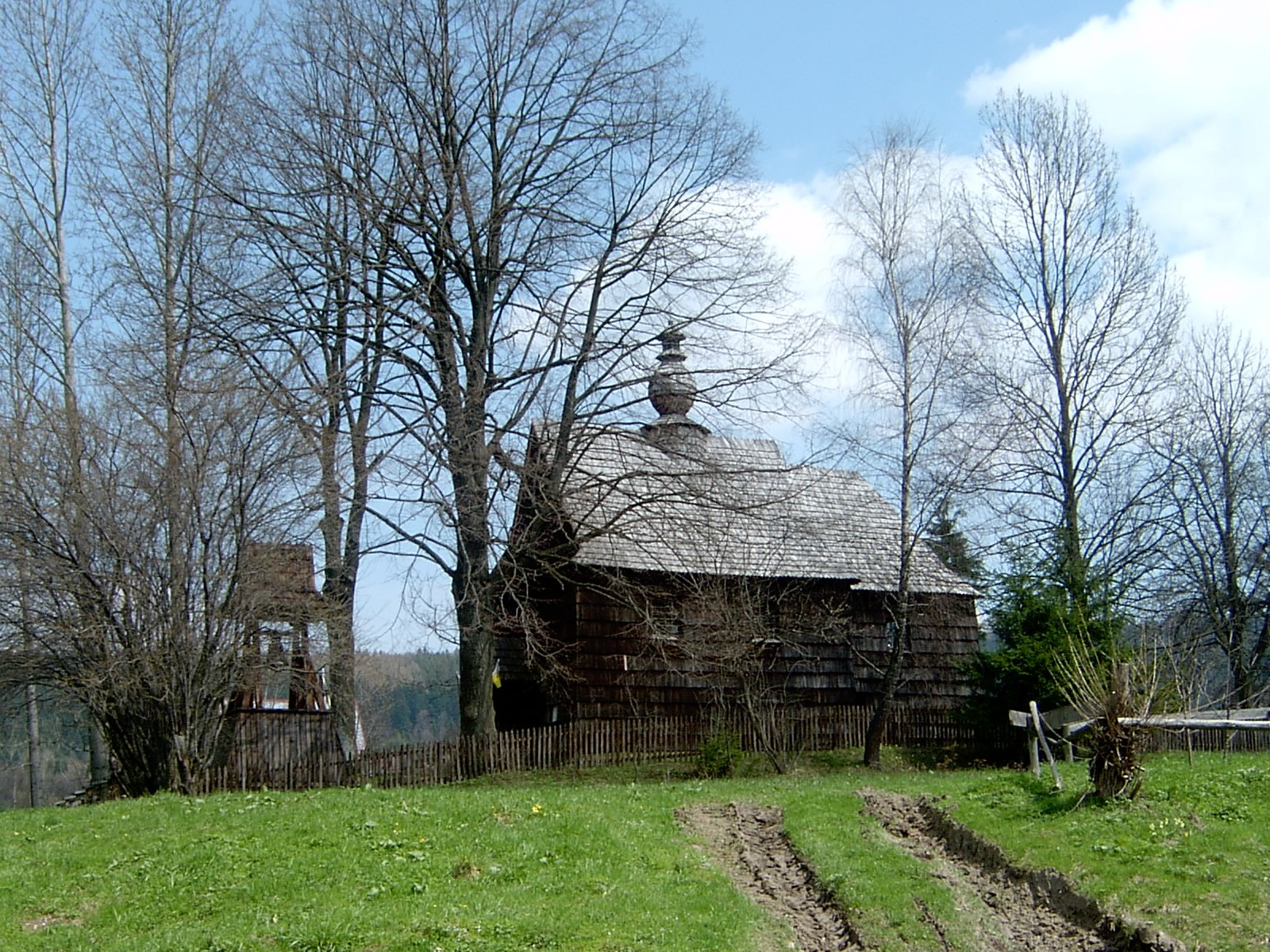 Żłobek (Poland), Greek Catholic church